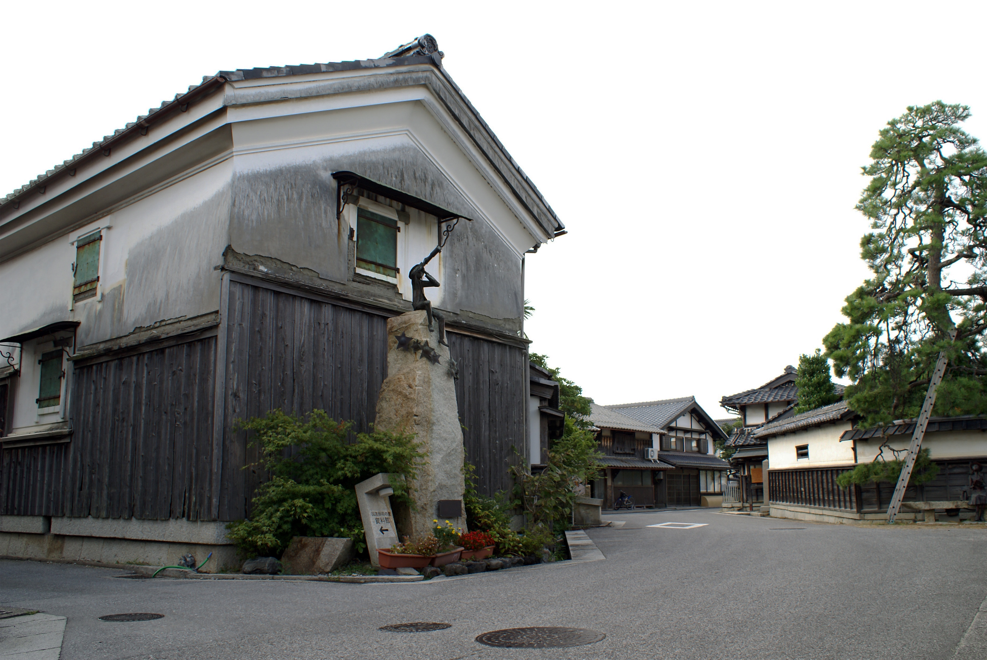 Scenery of the Kunitomo in Nagahama, Shiga, Japan